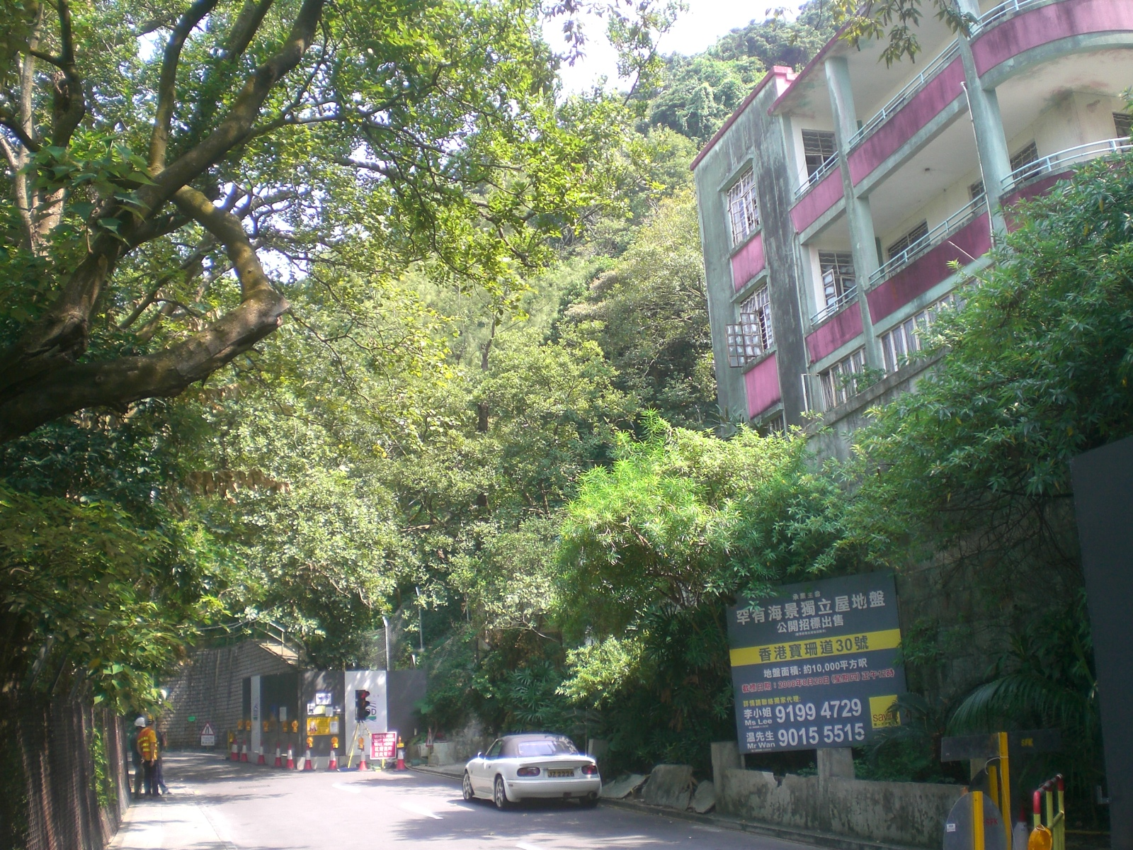 香港島zh:西半山區 寶珊道 第一太平戴維斯路牌